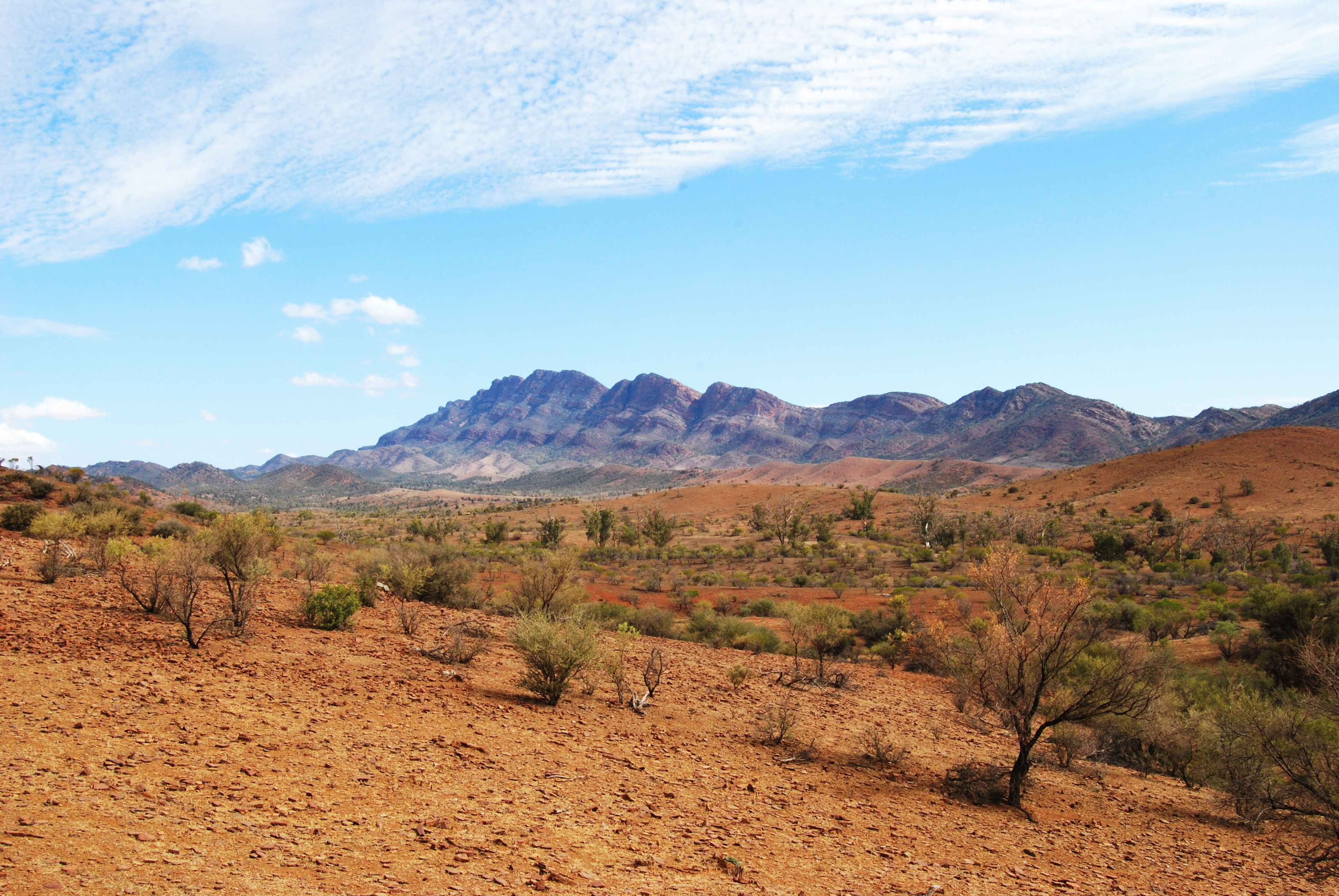 Arid pastoral (sheep grazing) land with the South Australian Flinders Ranges in the background.